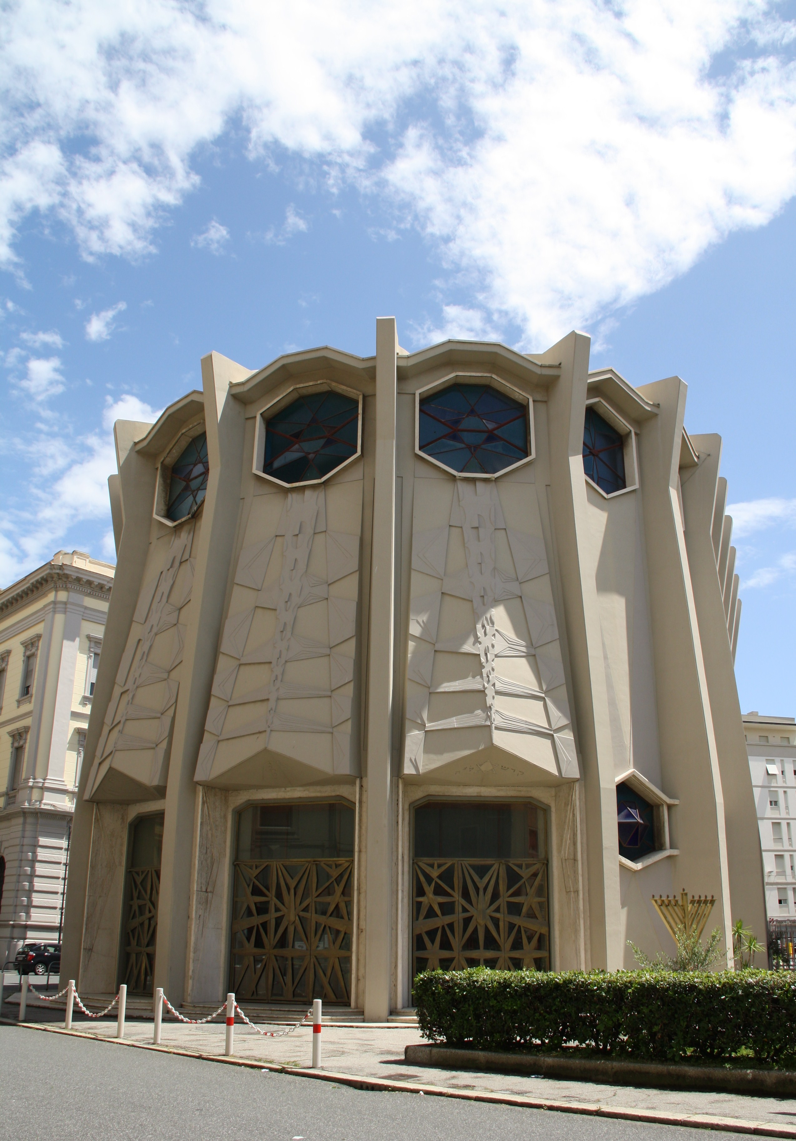 Italy, Livorno, Via del Tempio. The new Tempio maggiore has been built where the former synagogue had been. The former one was built in 1603 and was destroyed in Second World War. The current Synagogue is formed like a tent to remember the one built in the desert to protect The Tables of the Law.